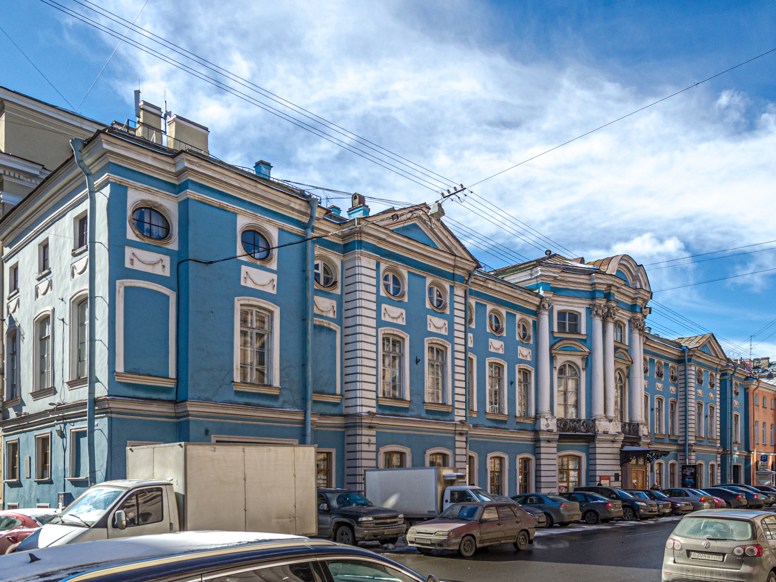 Italianskaya Street in Saint Petersburg.